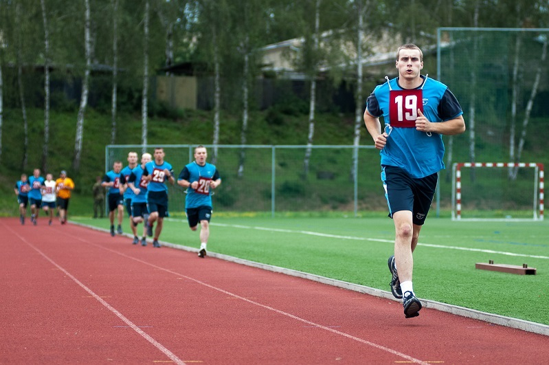 Selection of the 43rd Airborne Battalion (CZE) - PT